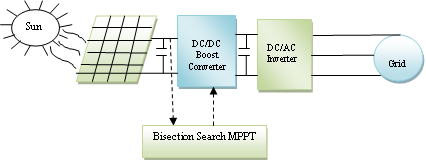 maximum power point tracking of the solar PV array